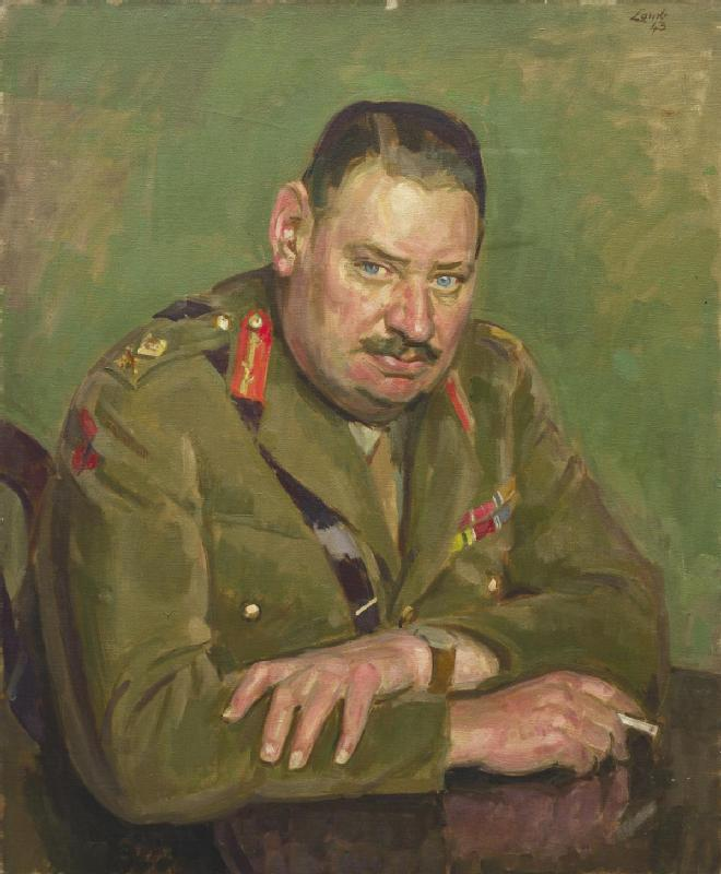 Major-general R F E Whittaker, Cb, Obe, Td, Aa Command, 1942 image: a half-length portrait of Major-General R F E Whittaker in uniform, shown sitting at a table with a cigarette in his right hand.